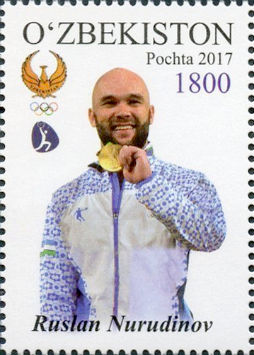 Uzbekistan 2017 MNH Rio 2016 Champions Medal Winners 2v Set Olympics Stamps